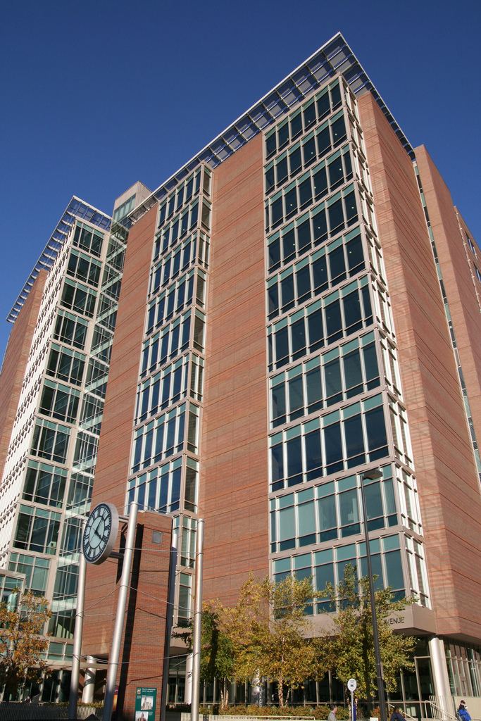 Clock outside of the Kent County Courthouse in Grand Rapids, Michigan. The clock is a redesign that includes one of the original faces of the former city hall clocktower built in 1888.